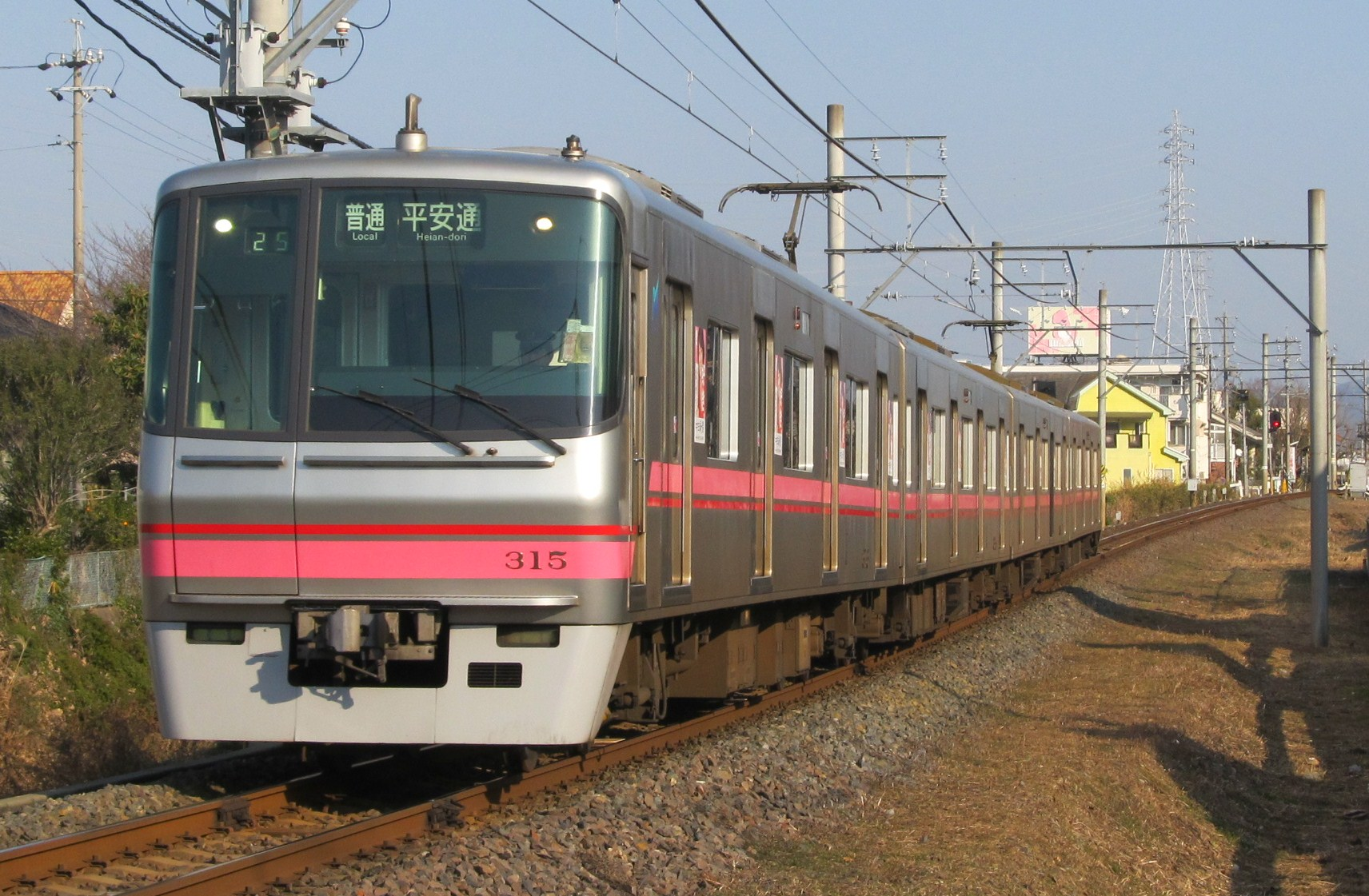 Meitetsu 300 series. Bound for Heian-dōri.